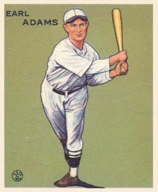 1933 Goudey baseball card of Earl "Sparky" Adams of the St. Louis Cardinals #213. PD-not-renewed